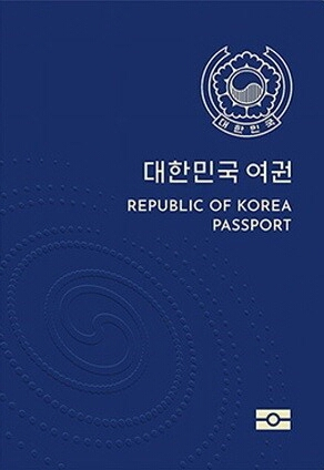 South Korean ePassport